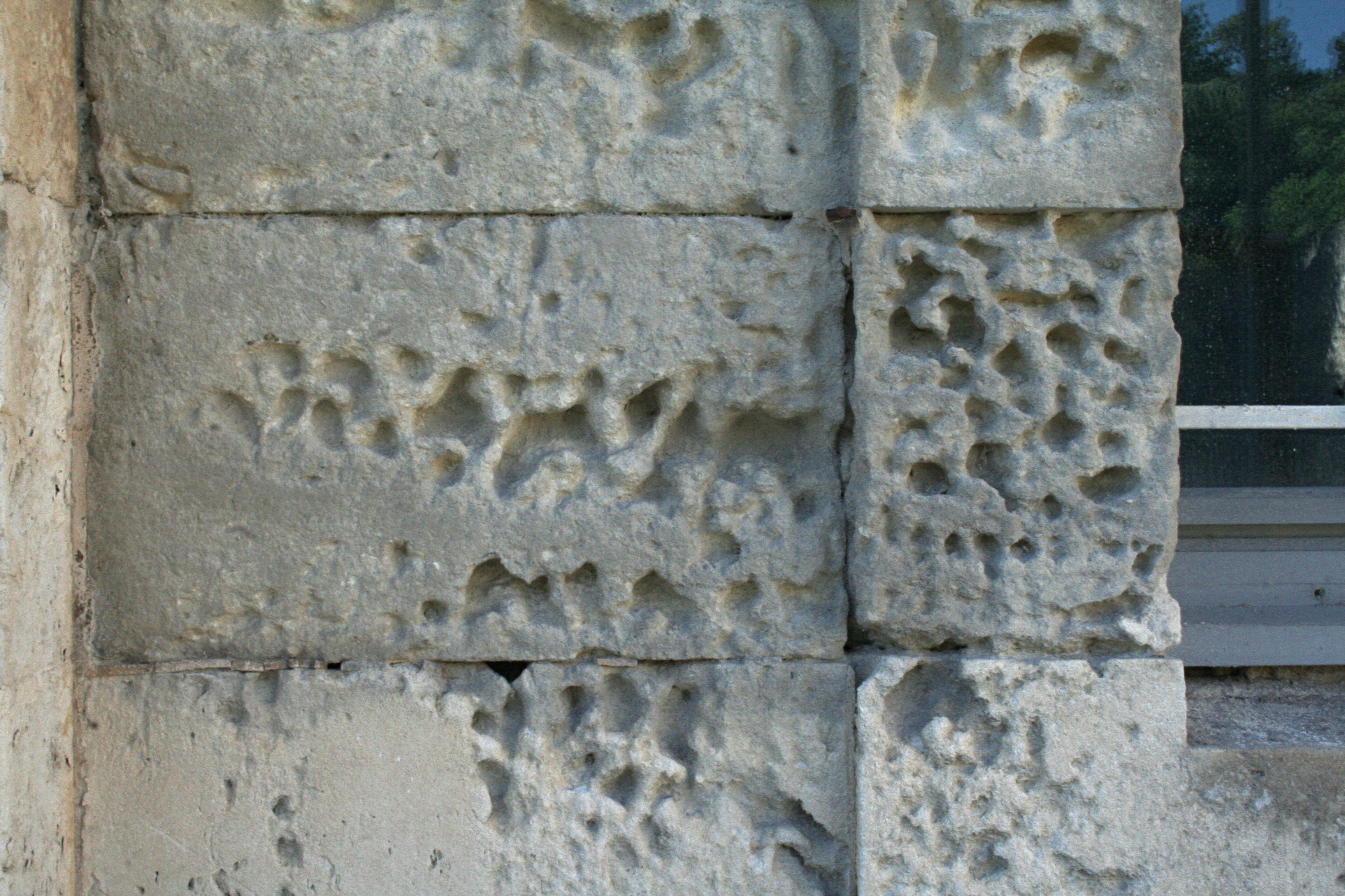 Alveolization of Limestone, Viviers.